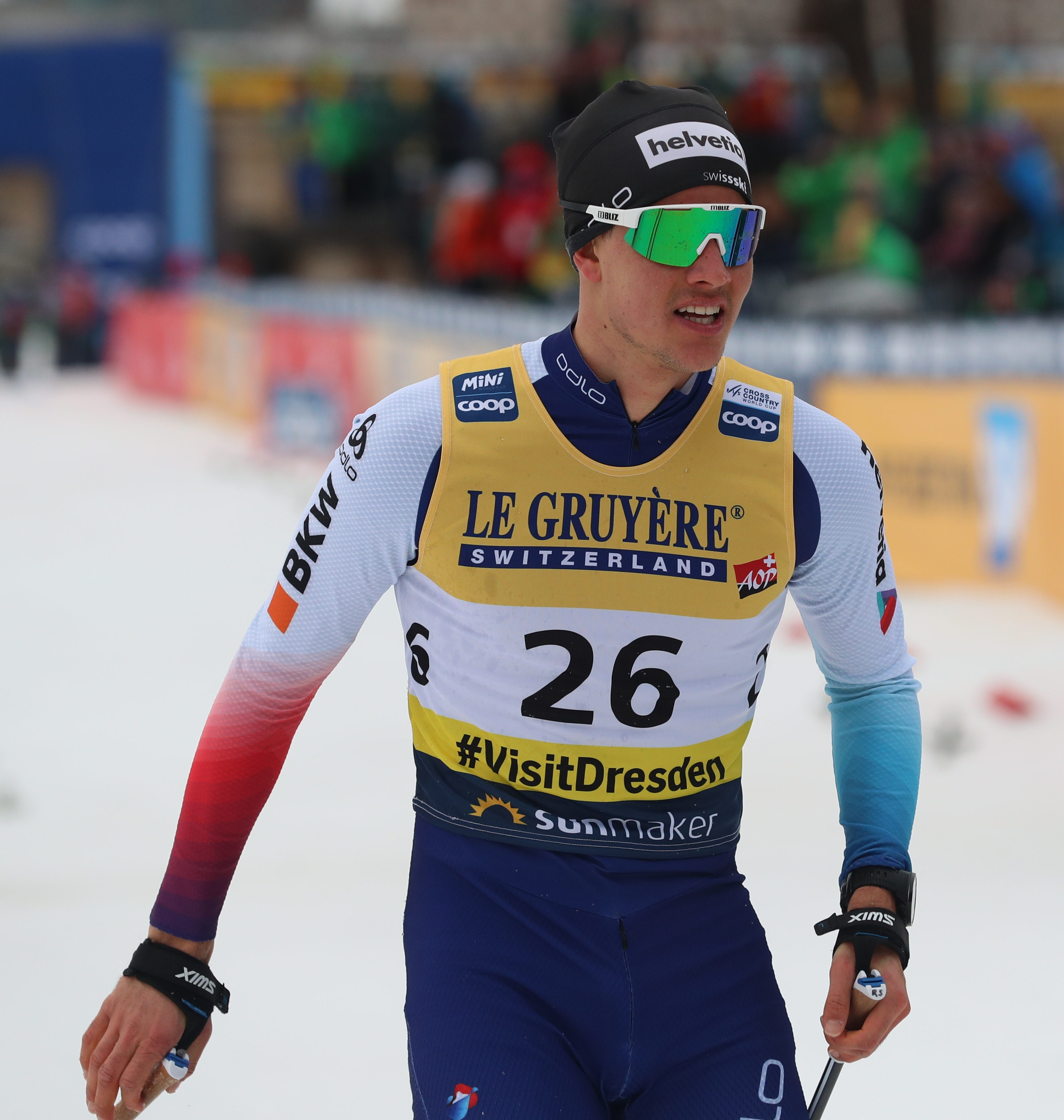 Men's Quarterfinal, Heat 4, at the FIS Cross-Country World Cup Dresden 2019 (1.6 km Free Sprint)